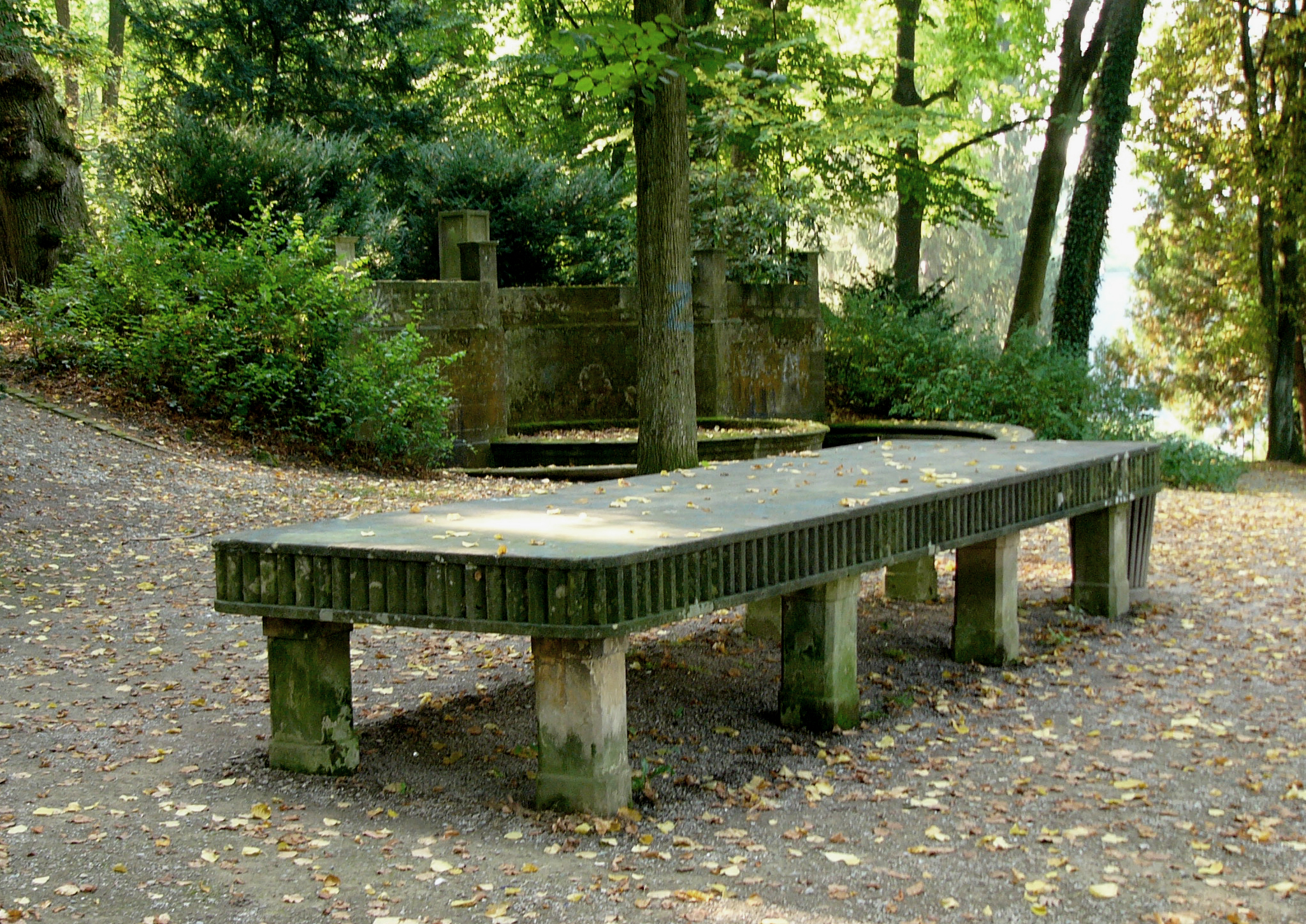 Stone table at Palais Gardens Detmold, Lippe District, North Rhine-Westphalia, Germany.